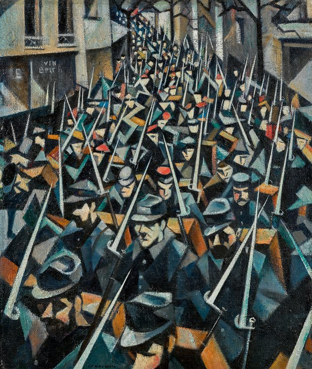 A Dawn by Christopher Richard Wynne Nevinson, 1914